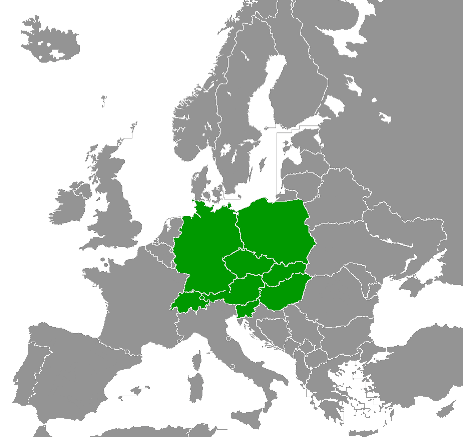 Central Europe according to CIA World Factbook